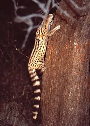 Animal species: Angolan Genet